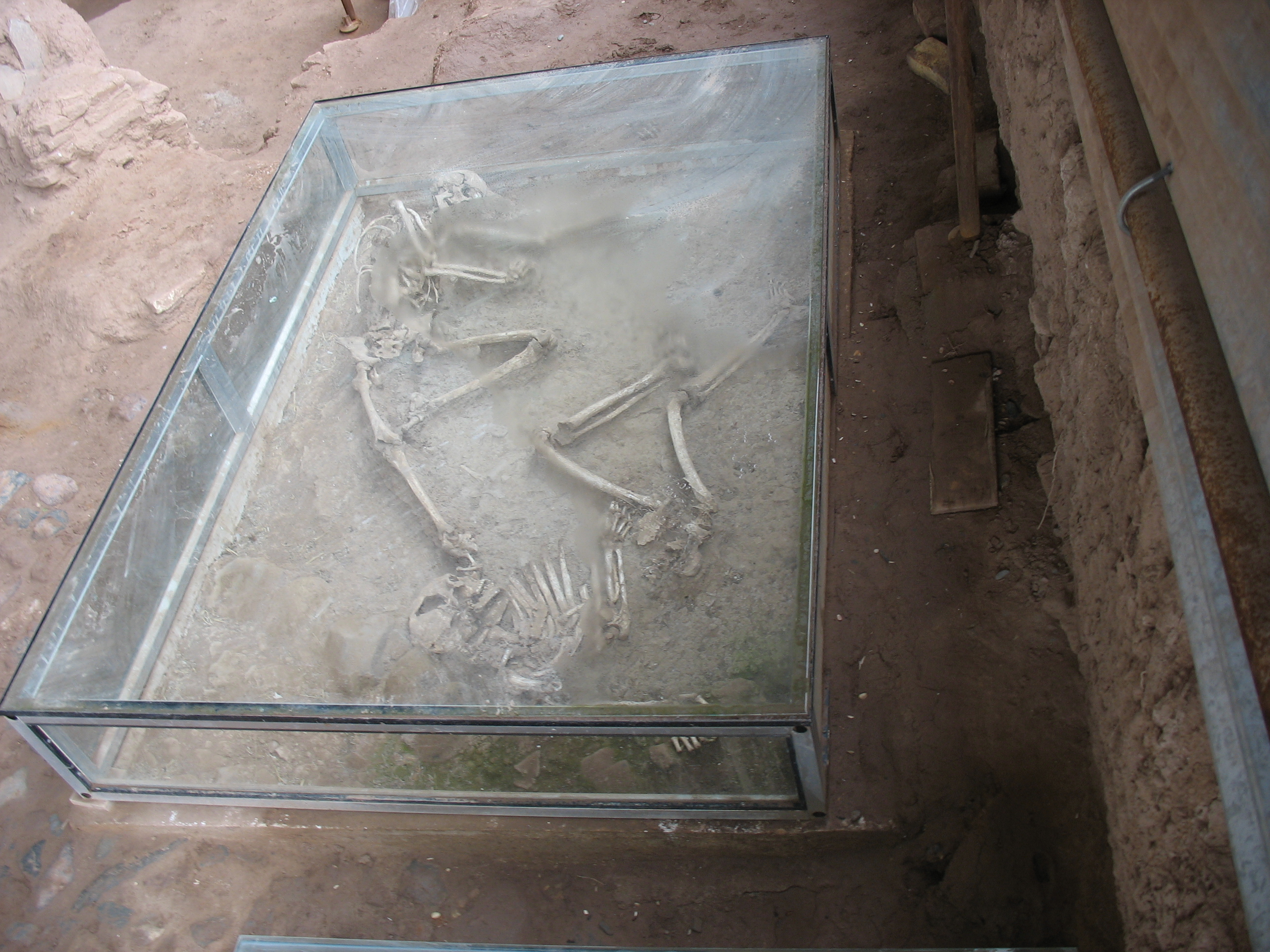 One of Skeletons found in Shadiyakh excavations in 1379H in Neyshabur